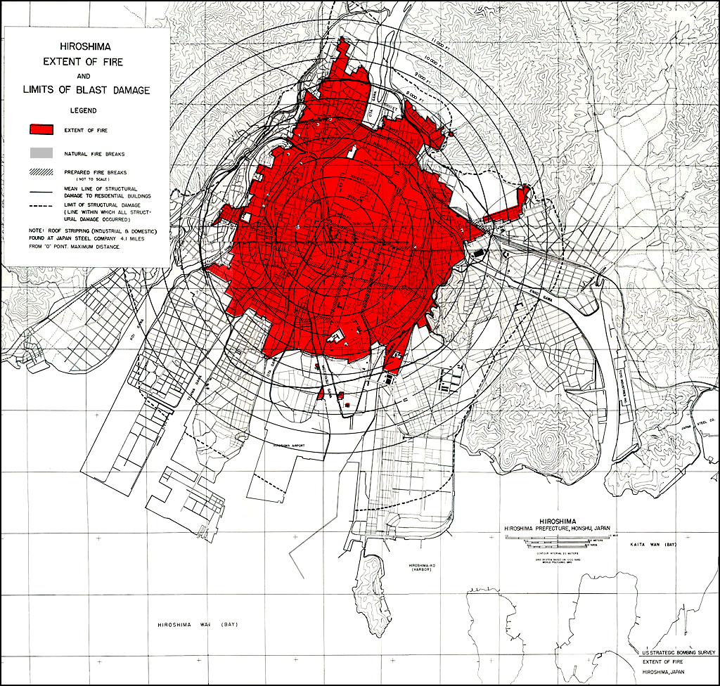 Map of Blast and Fire Damage to Hiroshima